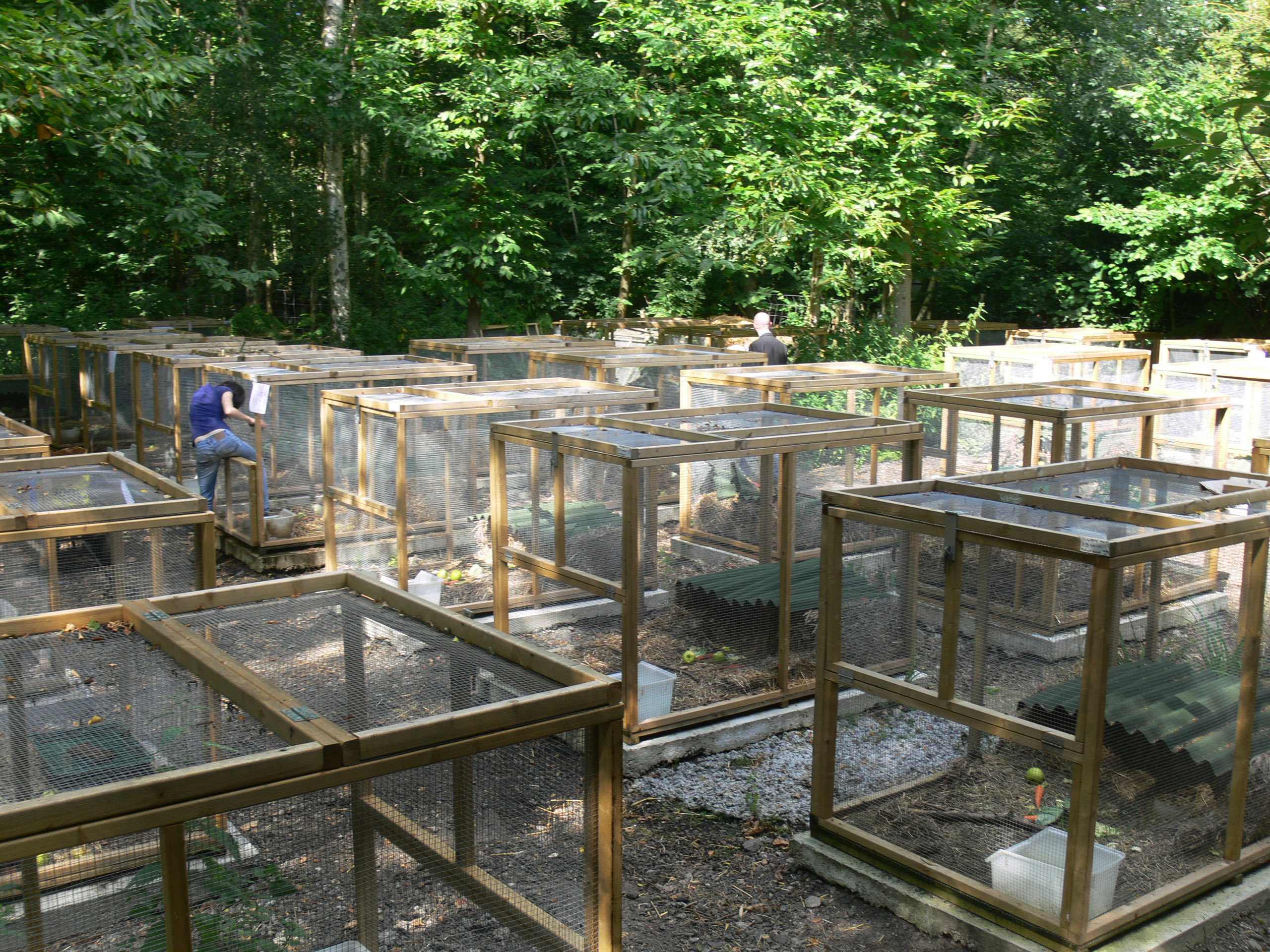 Wildwood Discovery Parkrecently calledWildwood Trust,in Kent (United Kingdom)